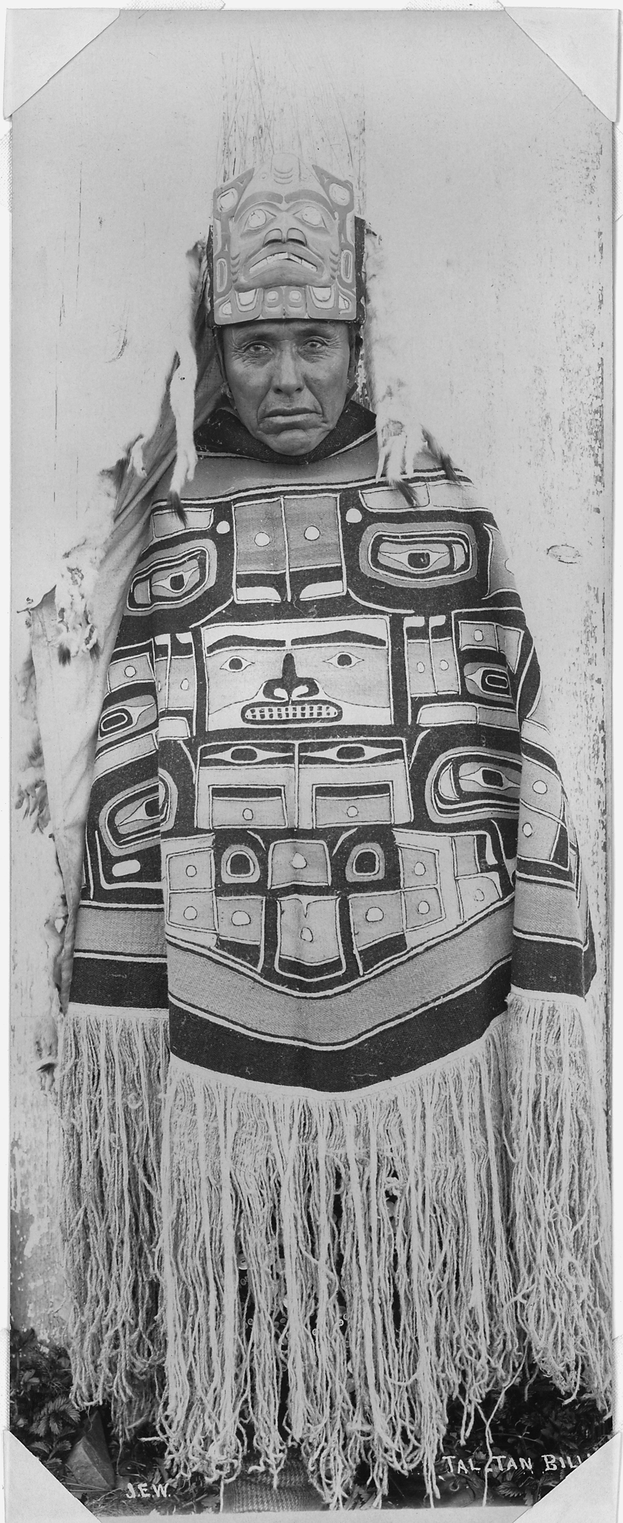 Mask (and blanket?) with ermine skins Scope and content: potlatch dancer wearing a Chilkat robe and frontlet, possibly Athabaskan Tahltan